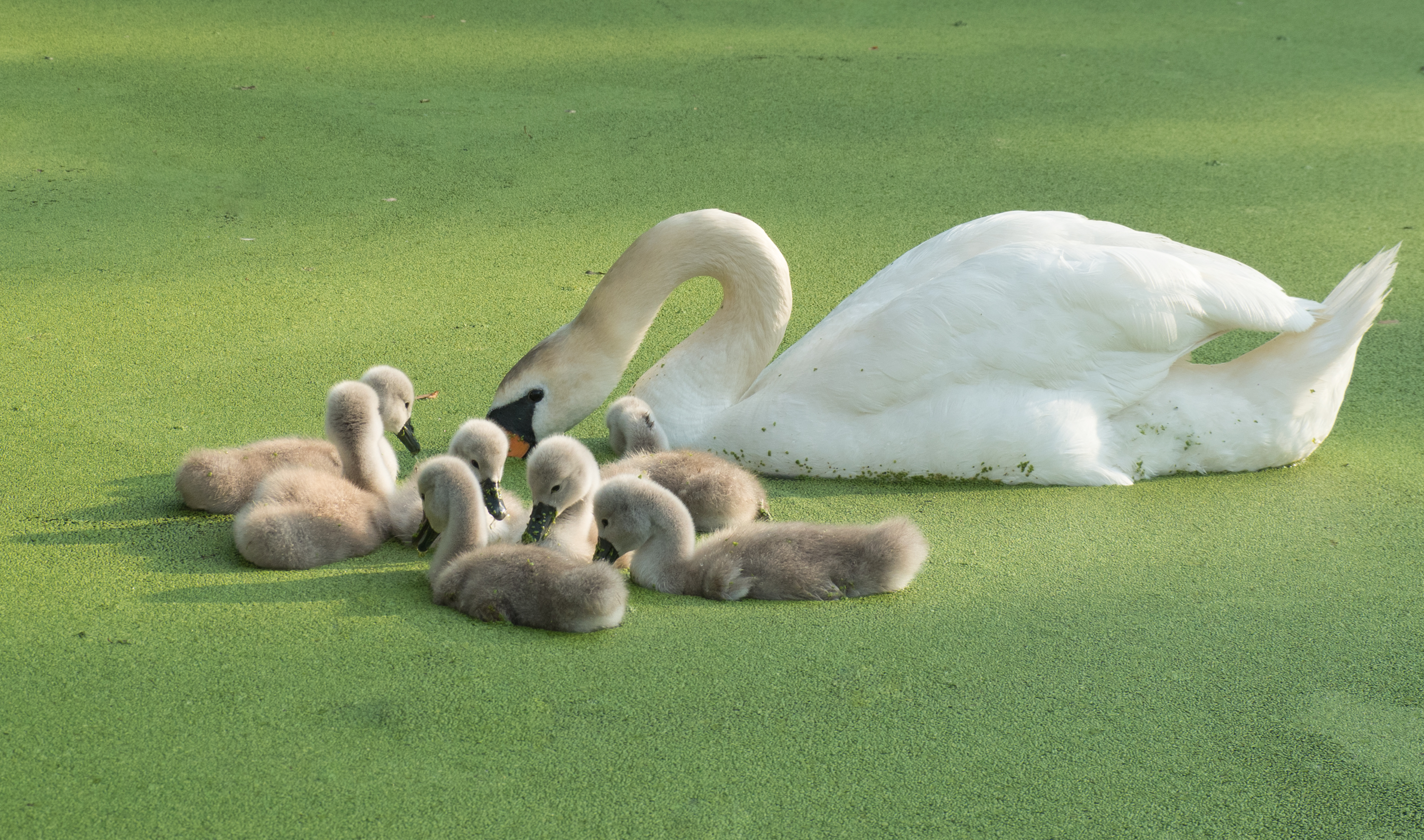 Mute swan cygnets learning in a duckweed-covered pond in Prospect Park, Brooklyn, New York City